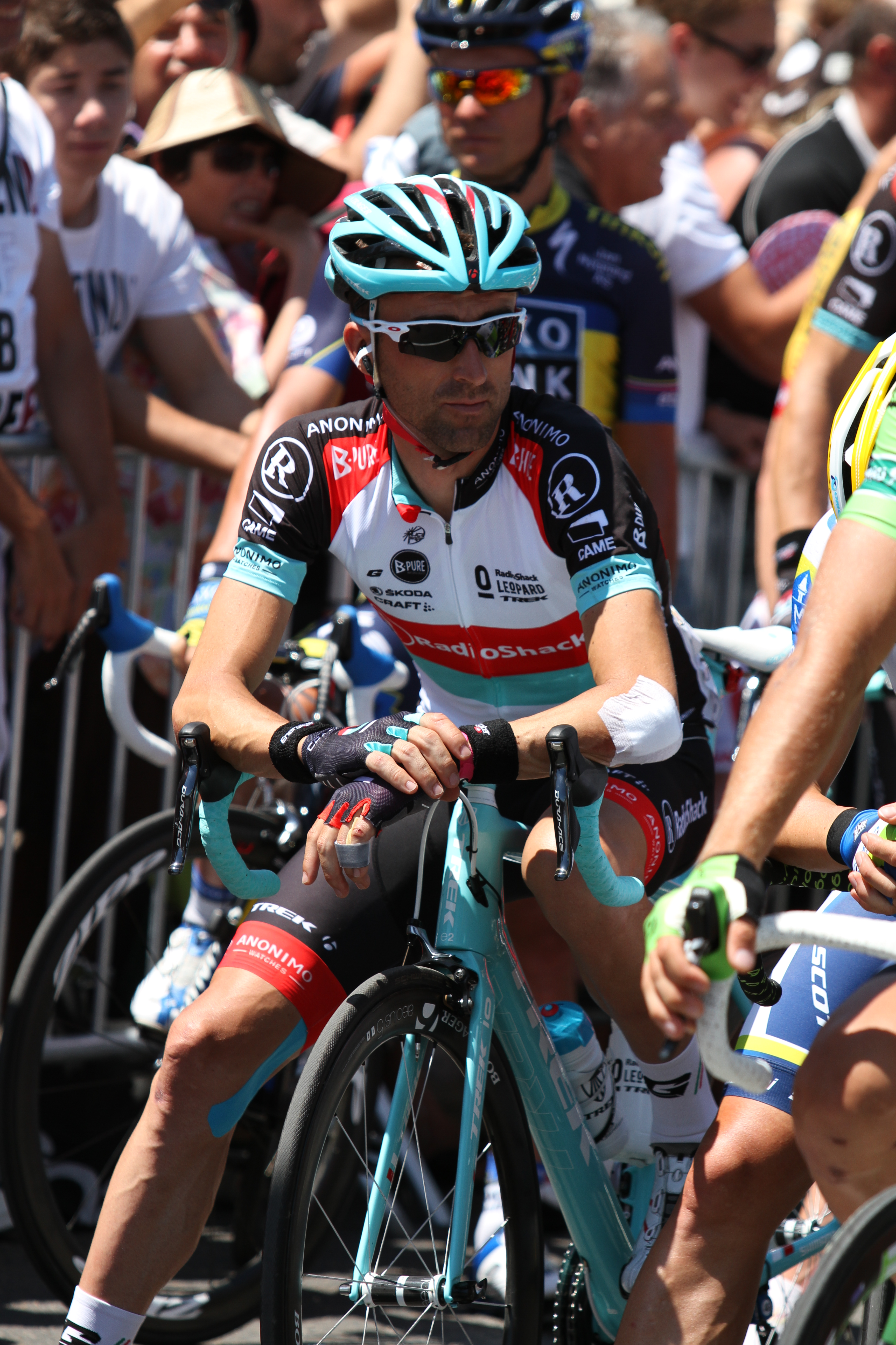 Haimar Zubeldia during Stage 6 of the Tour de France 2003 in Aix-en-Provence (Bouches-du-Rhône, France)